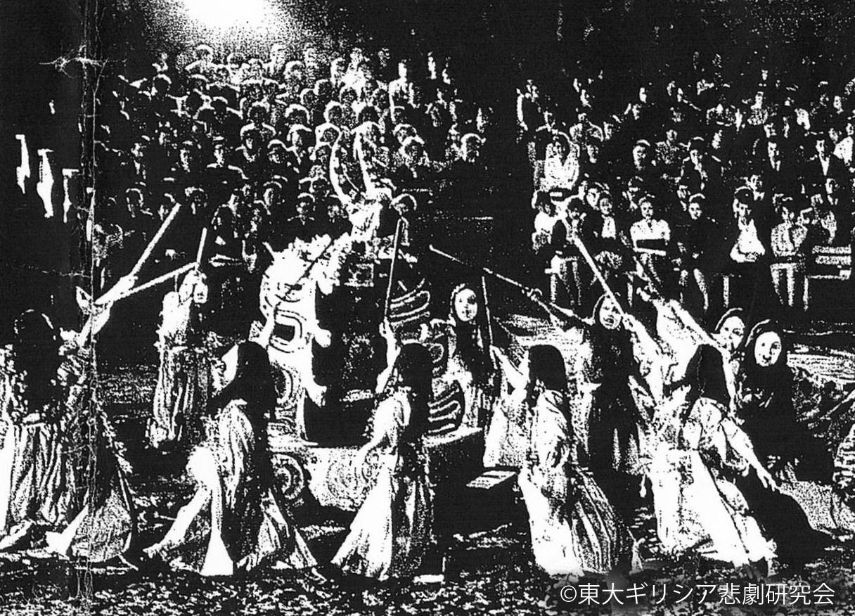 Greek Tragedy 1966 Tokyo University Greek Tragedy Institute-c